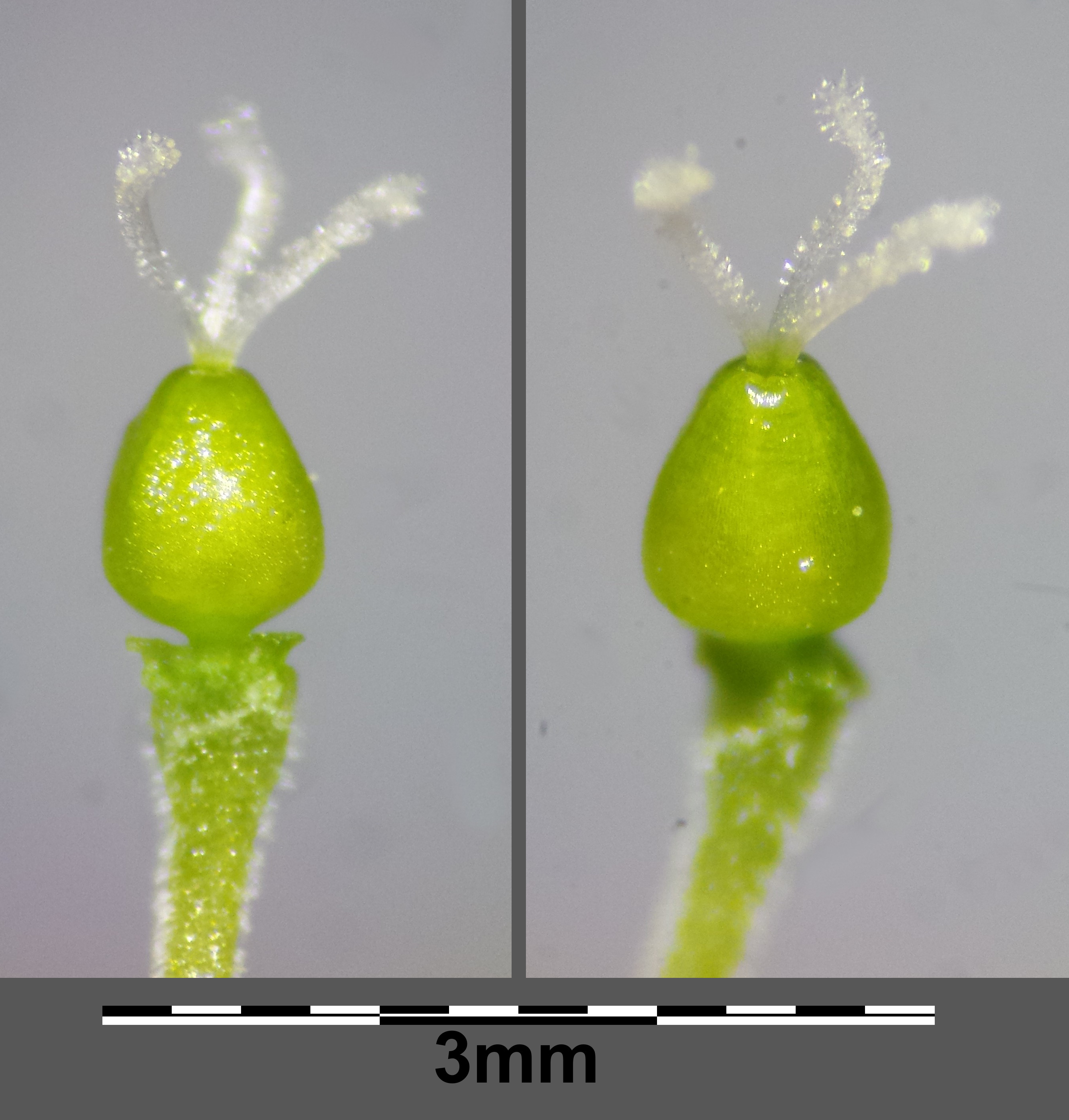 Ovary with styli Taxonym: Arenaria serpyllifolia ss Fischer et al. EfÖLS 2008 ISBN 978-3-85474-187-9 Location: Neue Donau, Vienna-Floridsdorf - ca. 160 m a.s.l. Habitat: dry slope